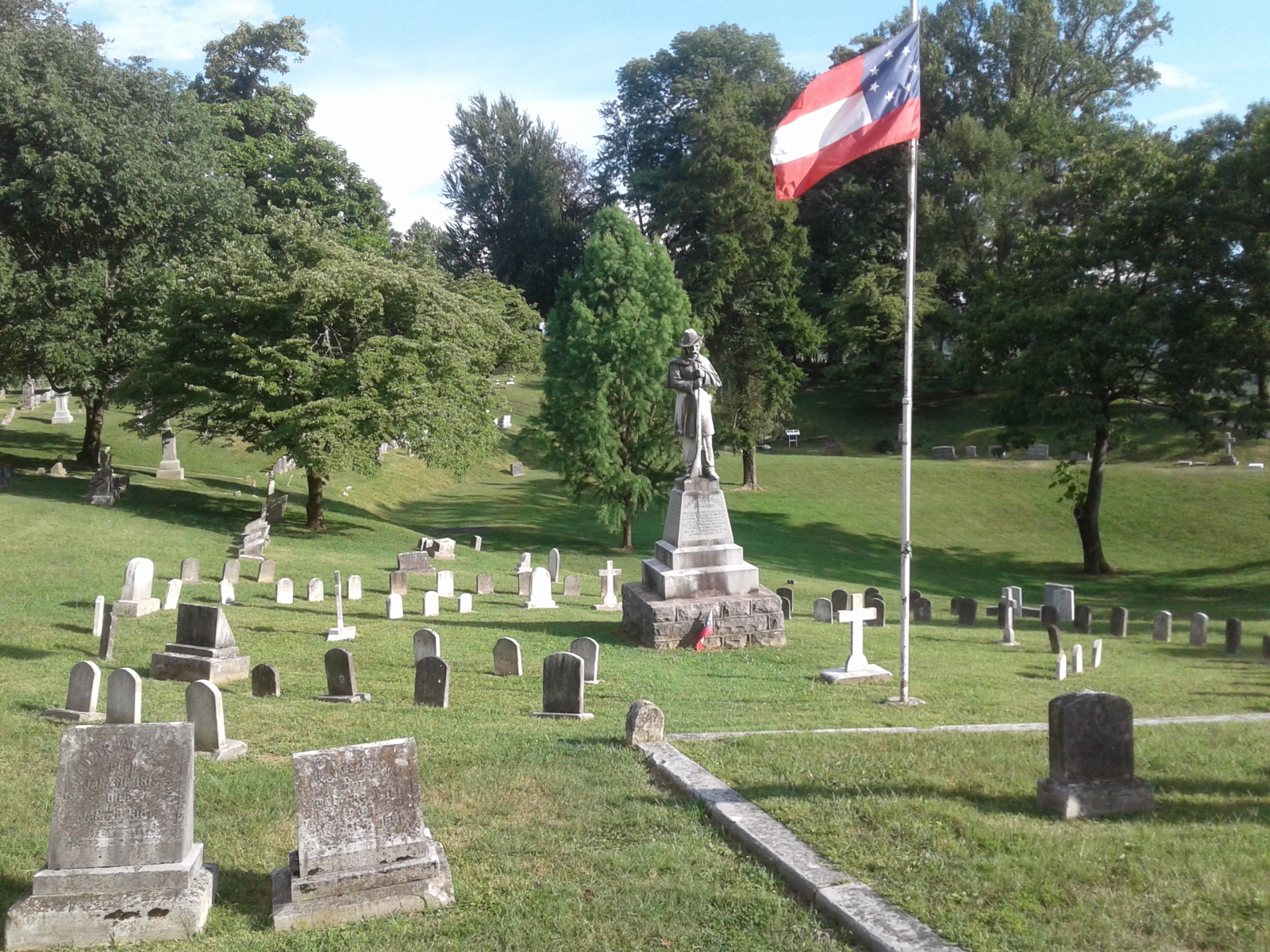 Confederate monument surrounded by 68 Confederate soldier graves. Photo taken July 2020 at Frankfort Cemetery in Frankfort, Kentucky. Viewed from the north.